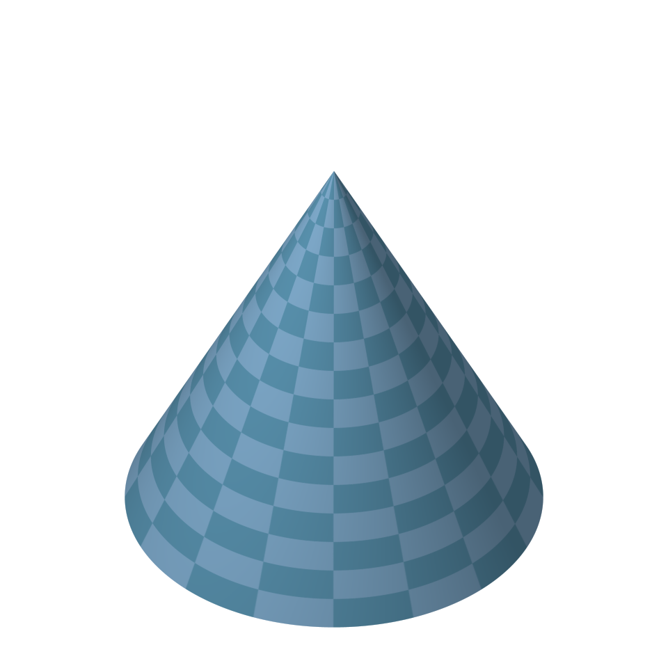 Blue-cone This image was created with POV-Ray.